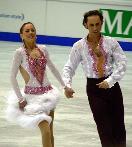 Galit Chait and Sergei Sakhnovski at the 2006 European Figure Skating Championships